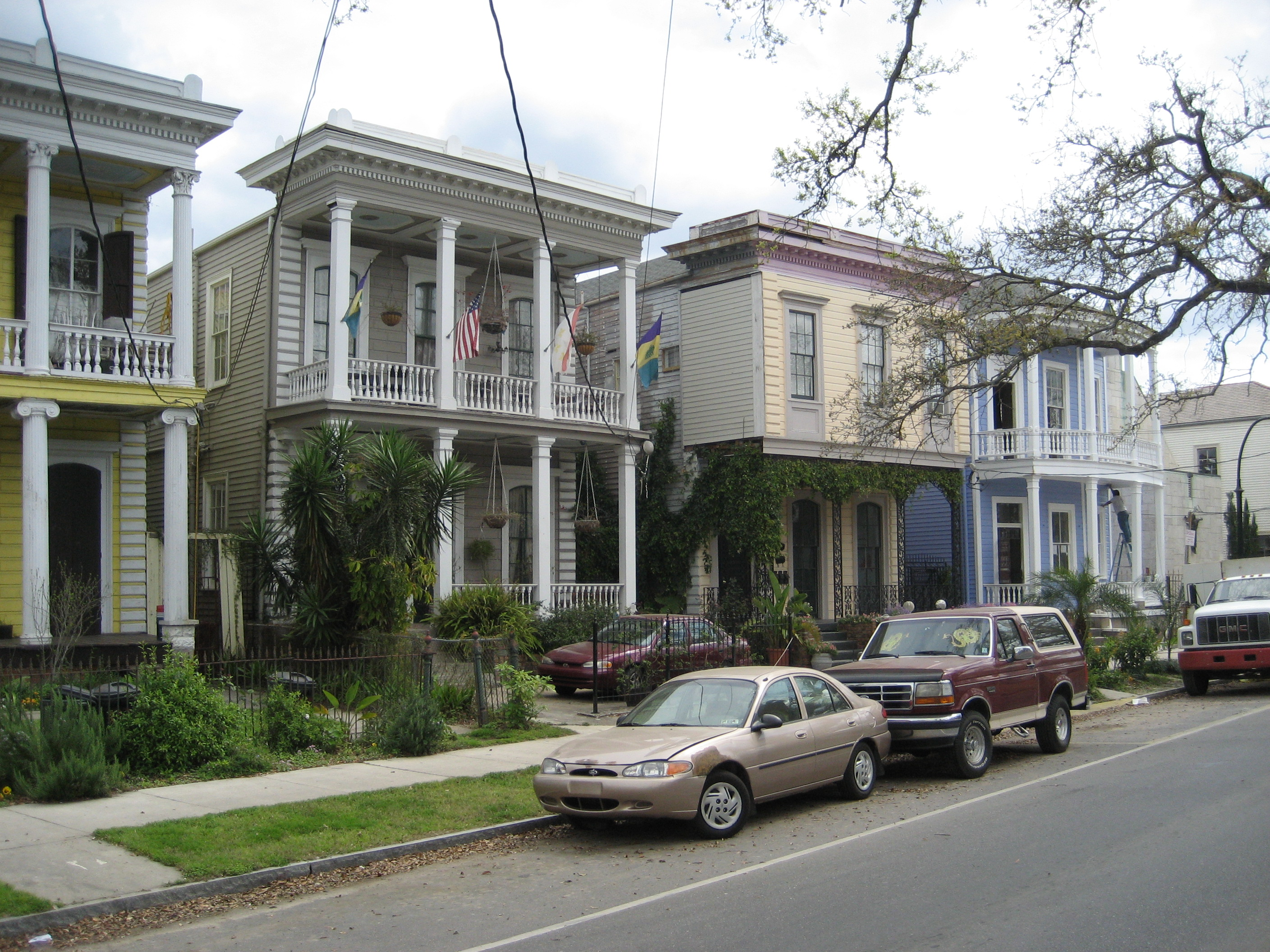 Houses on Esplanade Avenue, New Orleans include "Creole Greek Revival" style, one with upper gallery enclosed, and a "Victorian". Photo by Infrogmation of New Orleans